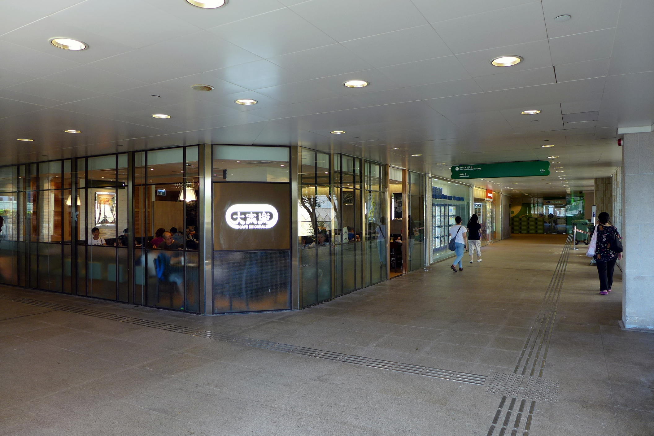 Lohas Park The Capital Premier Link Shops